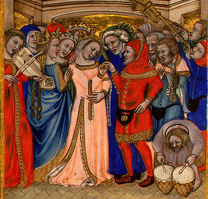 The marriage